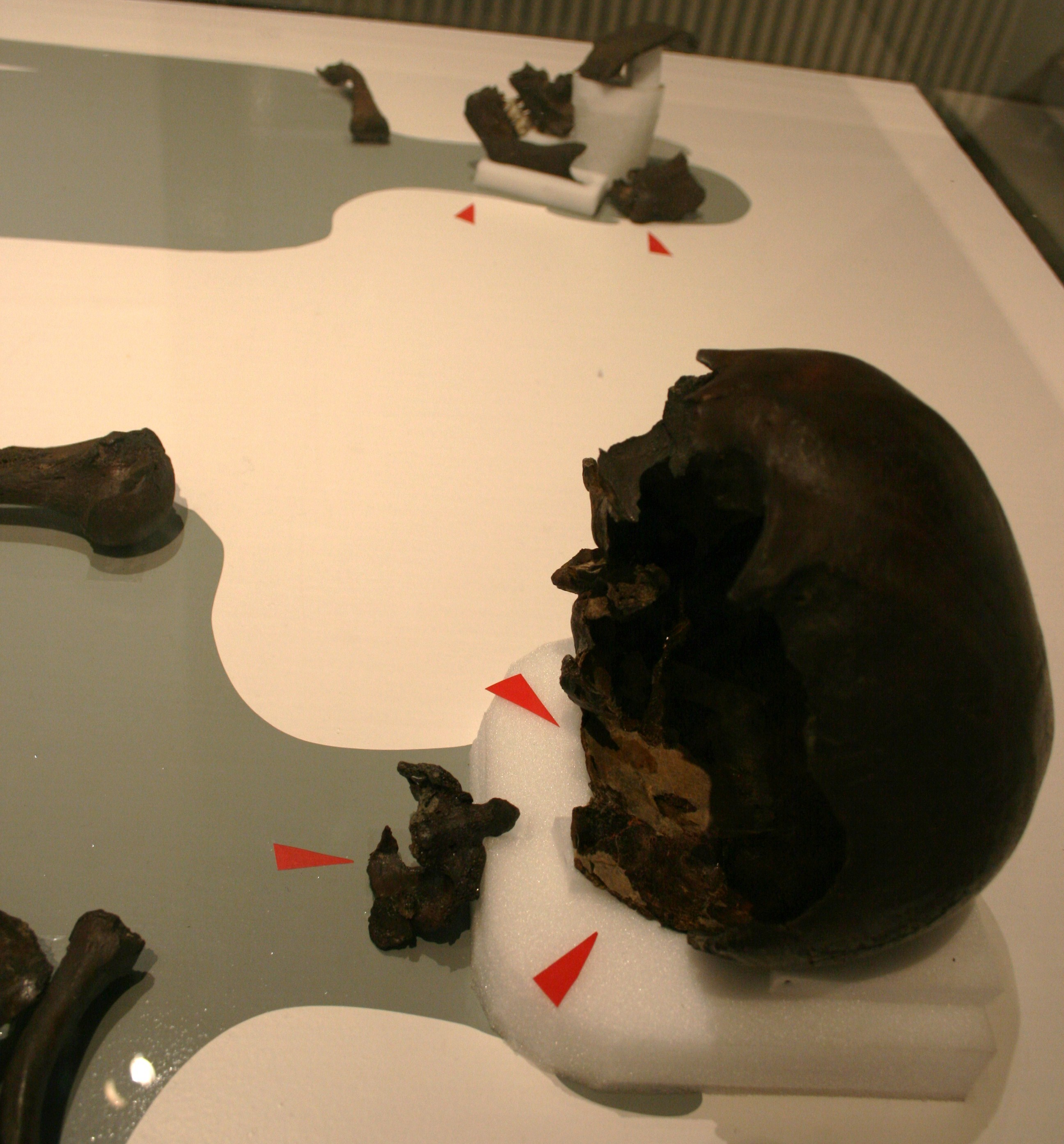 Skeleton remains of two woman from the Oseberg mound or tumulus boat grave. They dates back to 834 CE. Genetic tests have shown that the noble woman from Oseberg was about 152 cm, and likely had haplogroup mtDNA U7. A haplogroup that is rare in Europe and reaches the highest frequencies as far east as Pakistan and Western India as well as in Iran. Please attribute Saamiblog